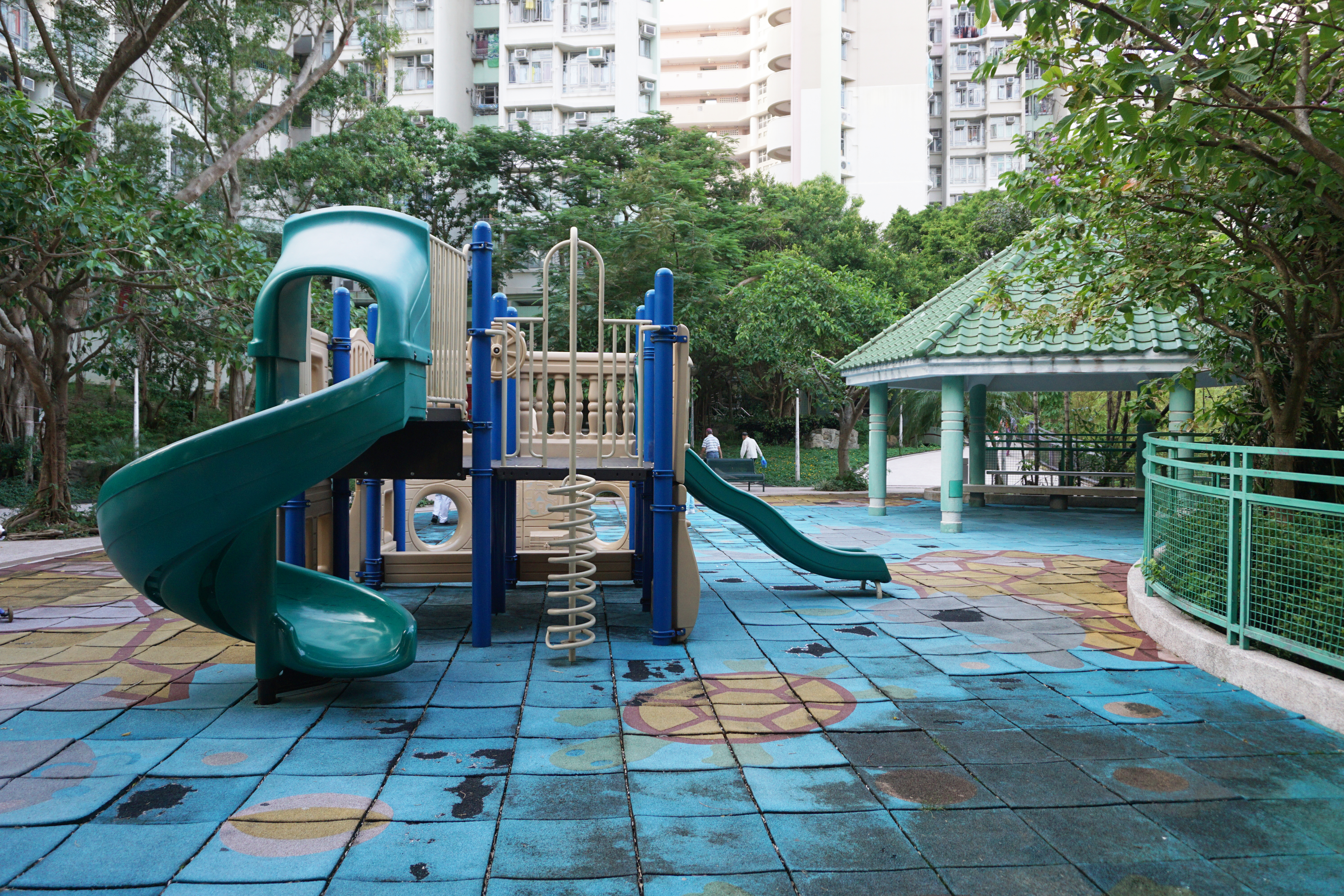 Ma Hang Estate in Stanley, Hong Kong.